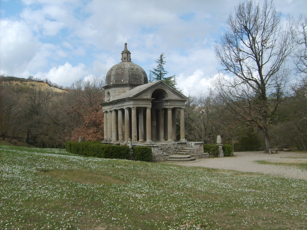 Bomarzo, Italy, "Parco dei mostri": "Tempietto", architect: Jacopo Barozzi da Vignola